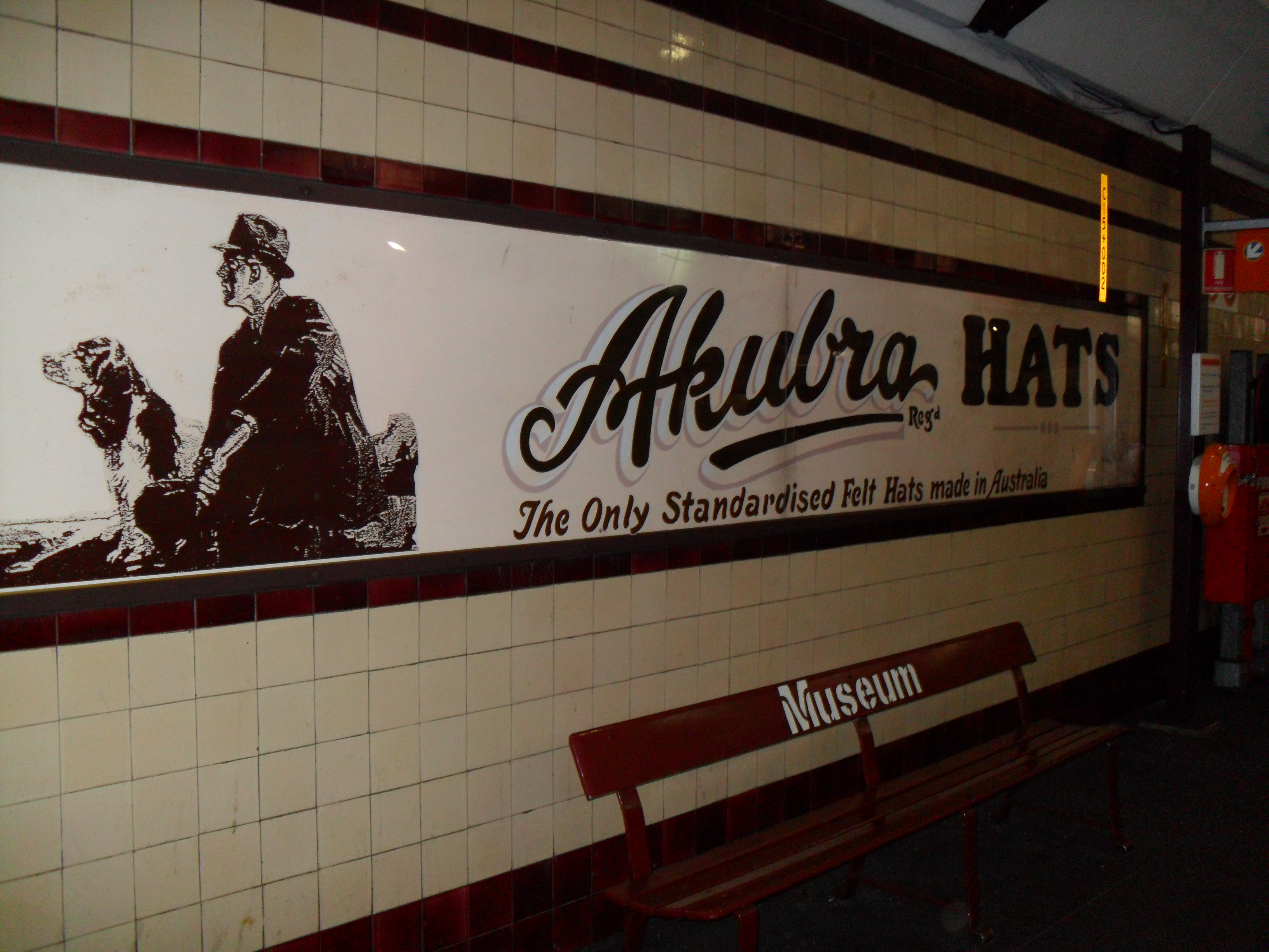 Museum Station, billboard ad, Sydney CBD